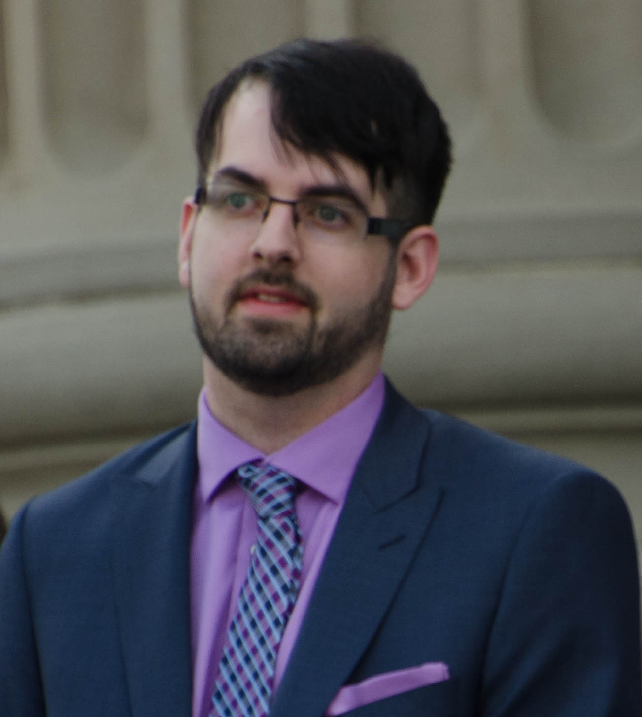 Trevor Horne at the 2015 Alberta Premier/Cabinet swearing-in ceremony, by Connor Mah.